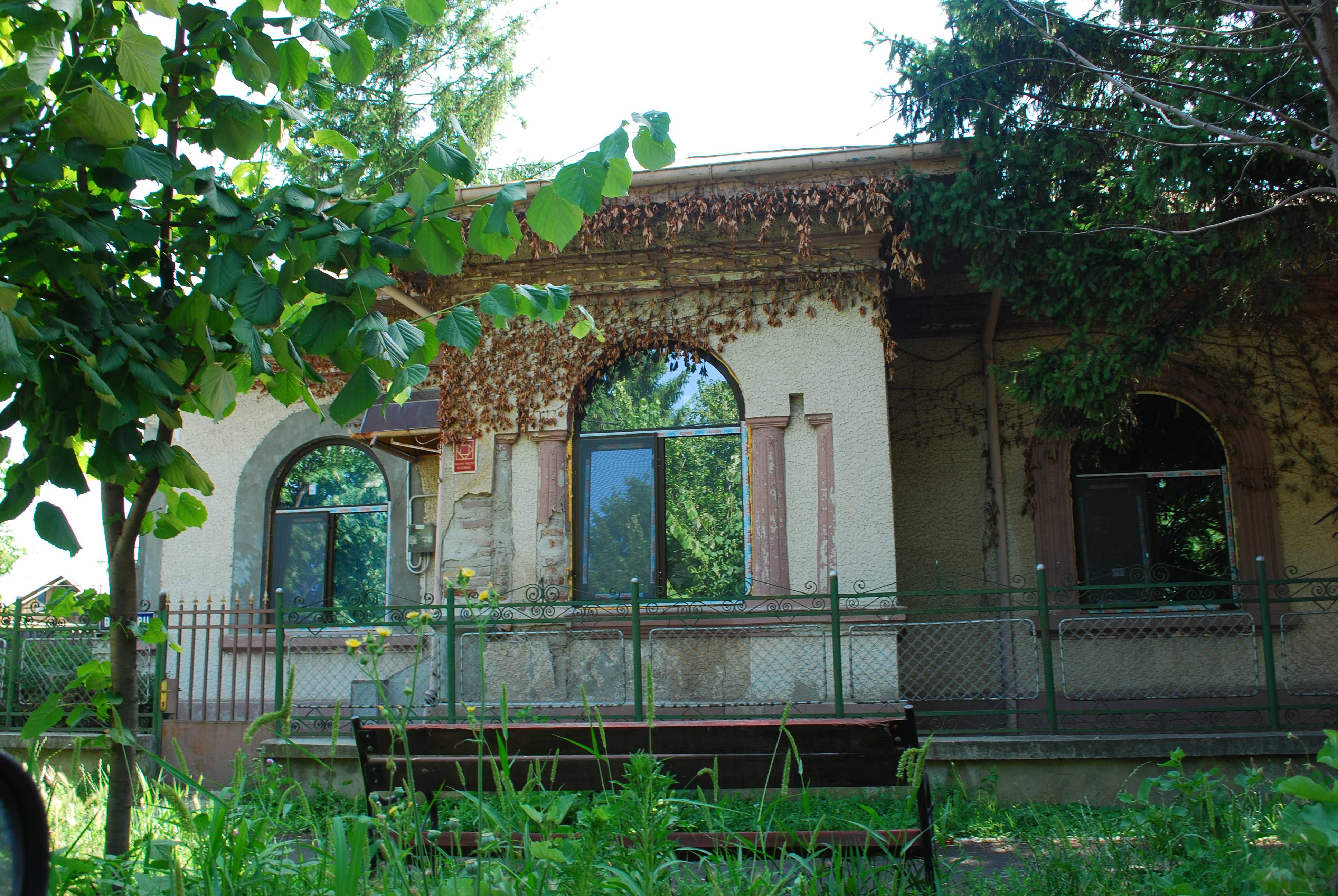 House in 2 Gării boulevard, Călărași, Romania